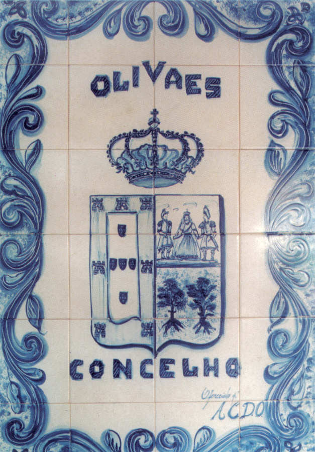 This image represents the Coat of Arms of the municipality of groves that existed in the province of Extremadura.